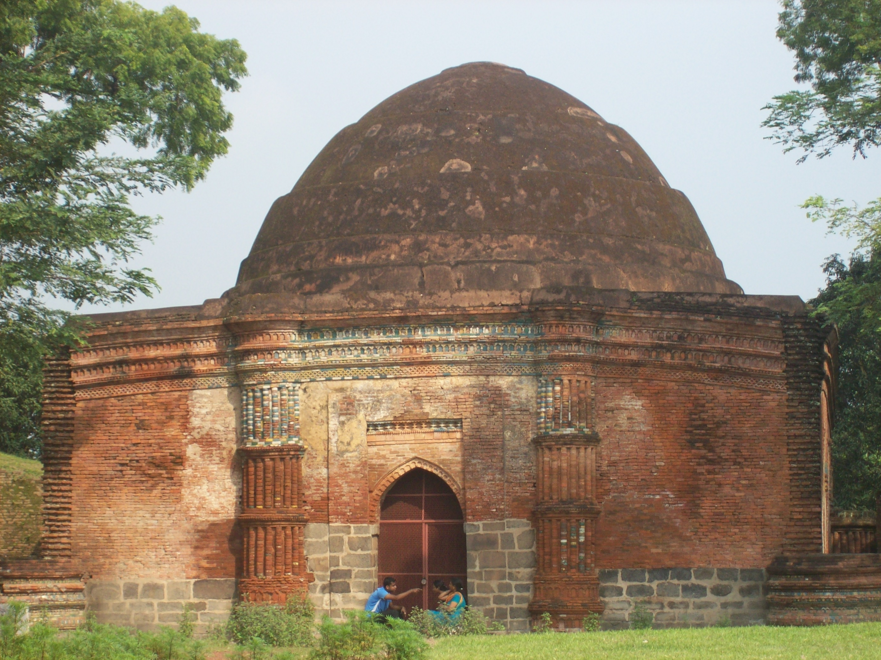 Ancient temple at Gaur, Malda.